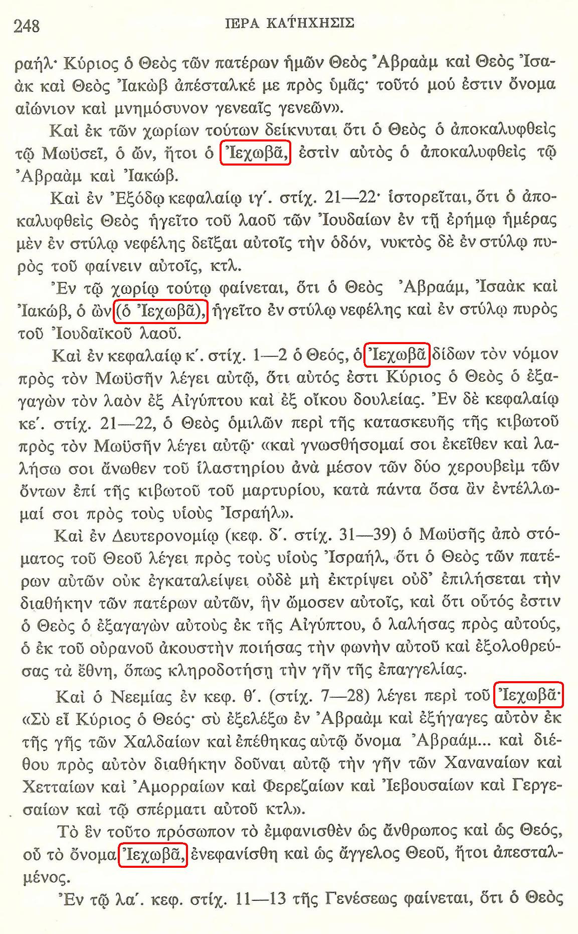 Excerpt from St. Nectarios book Sacred Orthodox Catechism. It was published at Athens at 1899. Jehovah (Greek Ιεχωβά) (page 248).